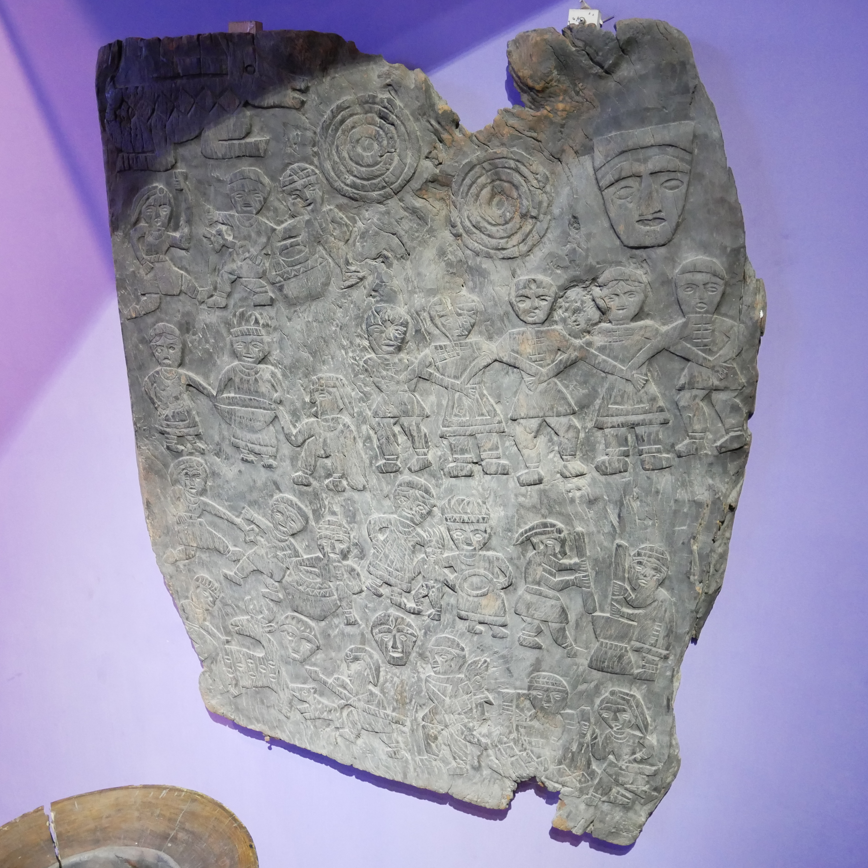 魯凱族木刻浮雕，屏東縣瑪家鄉北葉村